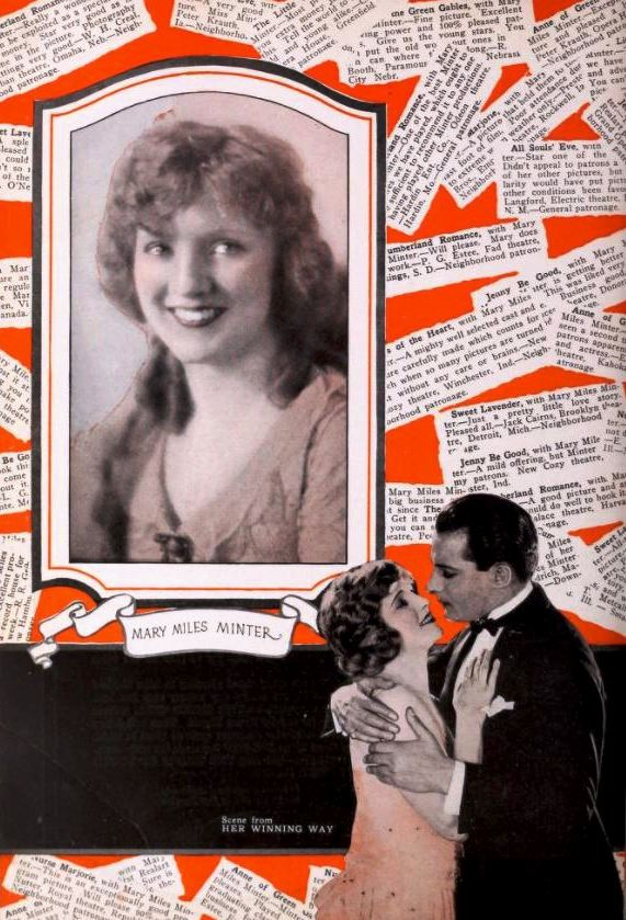 Advertisement for the American comedy film Her Winning Way (1921) with Mary Miles Minter and Gaston Glass, from the insert after page 18 of the August 27, 1921 Exhibitors Herald.